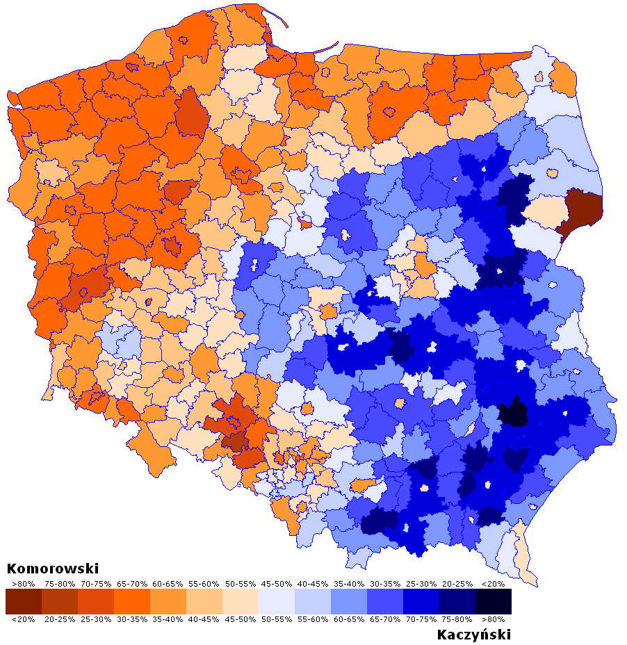 Polish presidential election, 2010 - results of the II round (4 July 2010) by counties